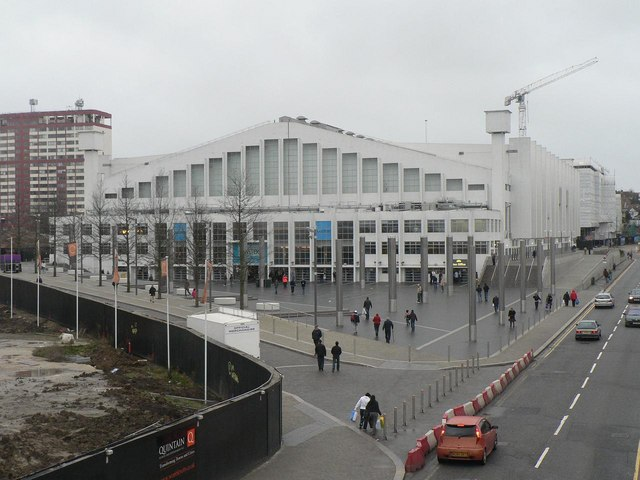 Wembley: Wembley Arena The arena is dwarfed by its neighbour, Wembley Stadium, and plays host to various musical concerts and indoor sporting events – this week it has held the Masters, one of the snooker circuit's most prestigious events, which moved here in 2007 following the demolition of its long-time venue, nearby Wembley Conference Centre.